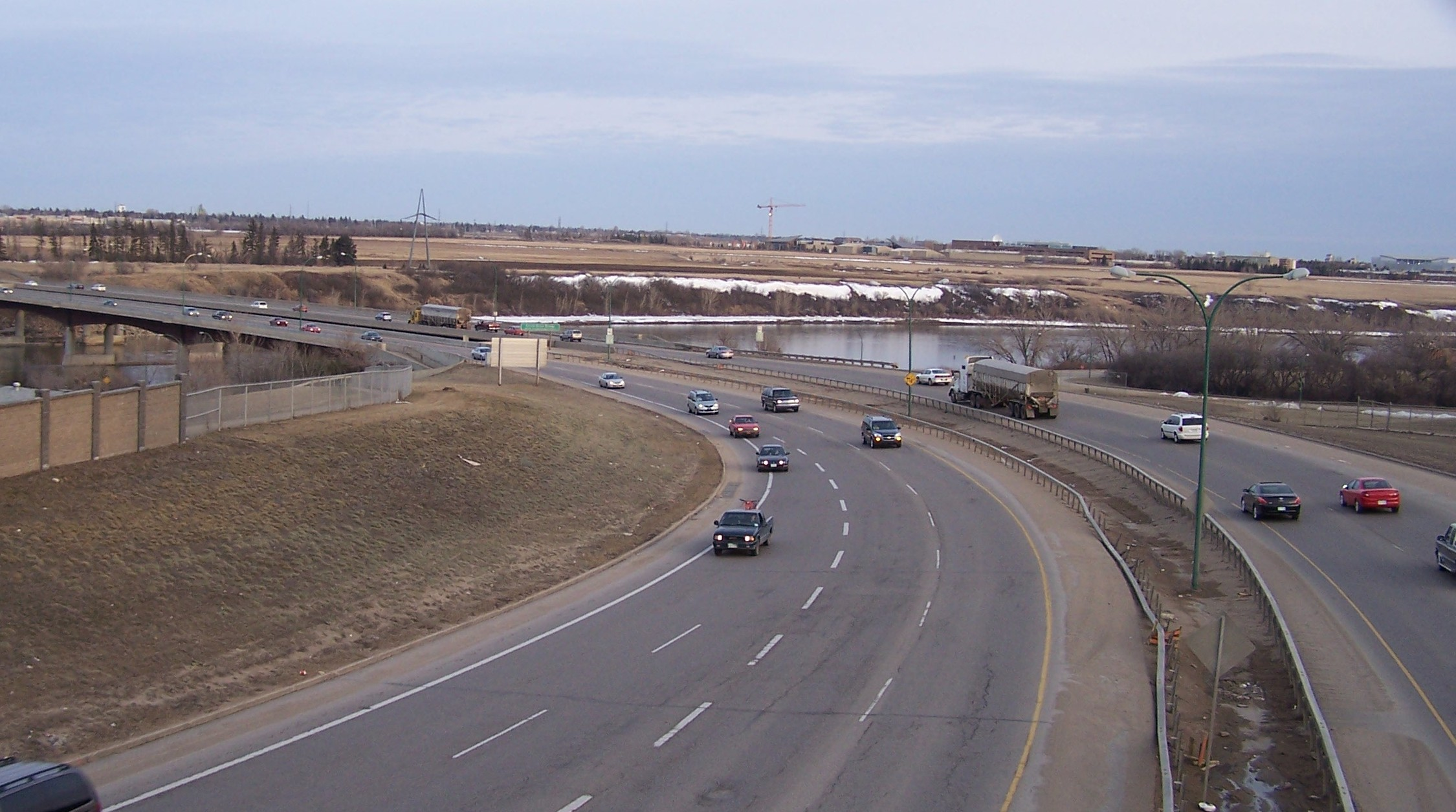 A view of the Circle Drive Overpass in Saskatoon.